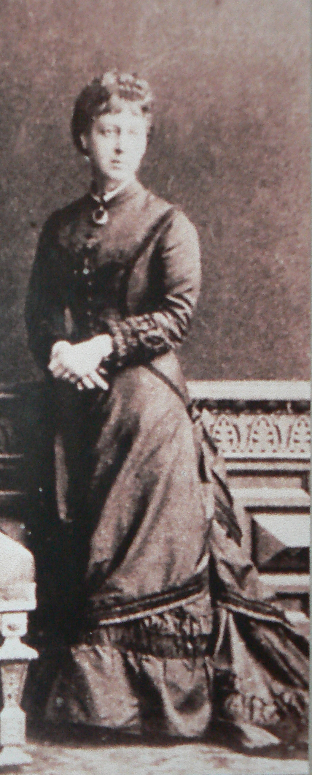 Photo of Lady Emily Anne Smythe, Viscountess Strangford (1826-1887). Exhibit of the Perushtitsa History Museum